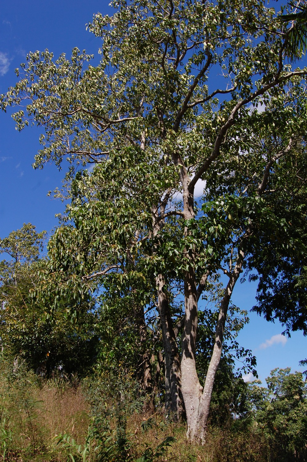 Candlenut (Aleurites moluccana), habits. Ayotupas, West Timor, Indonesia